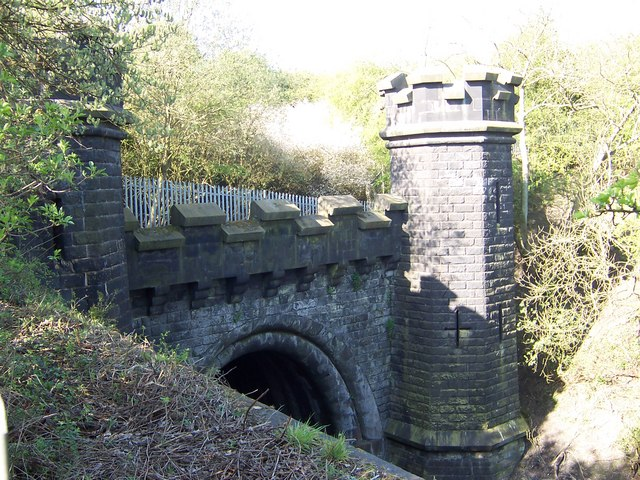 Clay Cross Tunnel, near to Clay Cross, Derbyshire, Great Britain. This is Clay Cross Tunnel which is of Moorish design and grade 2 listed. The tunnel was completed in 1839 by George Stephenson and is 1,784 yards long and Clay Cross High Street is 150 feet above the line. The tunnel eventually cost �140,000 instead of �98,000 with the lost of 15 lives. As the tunnel was bored out they found coal and iron in large amounts and so George Stephenson opened Clay Cross Company.